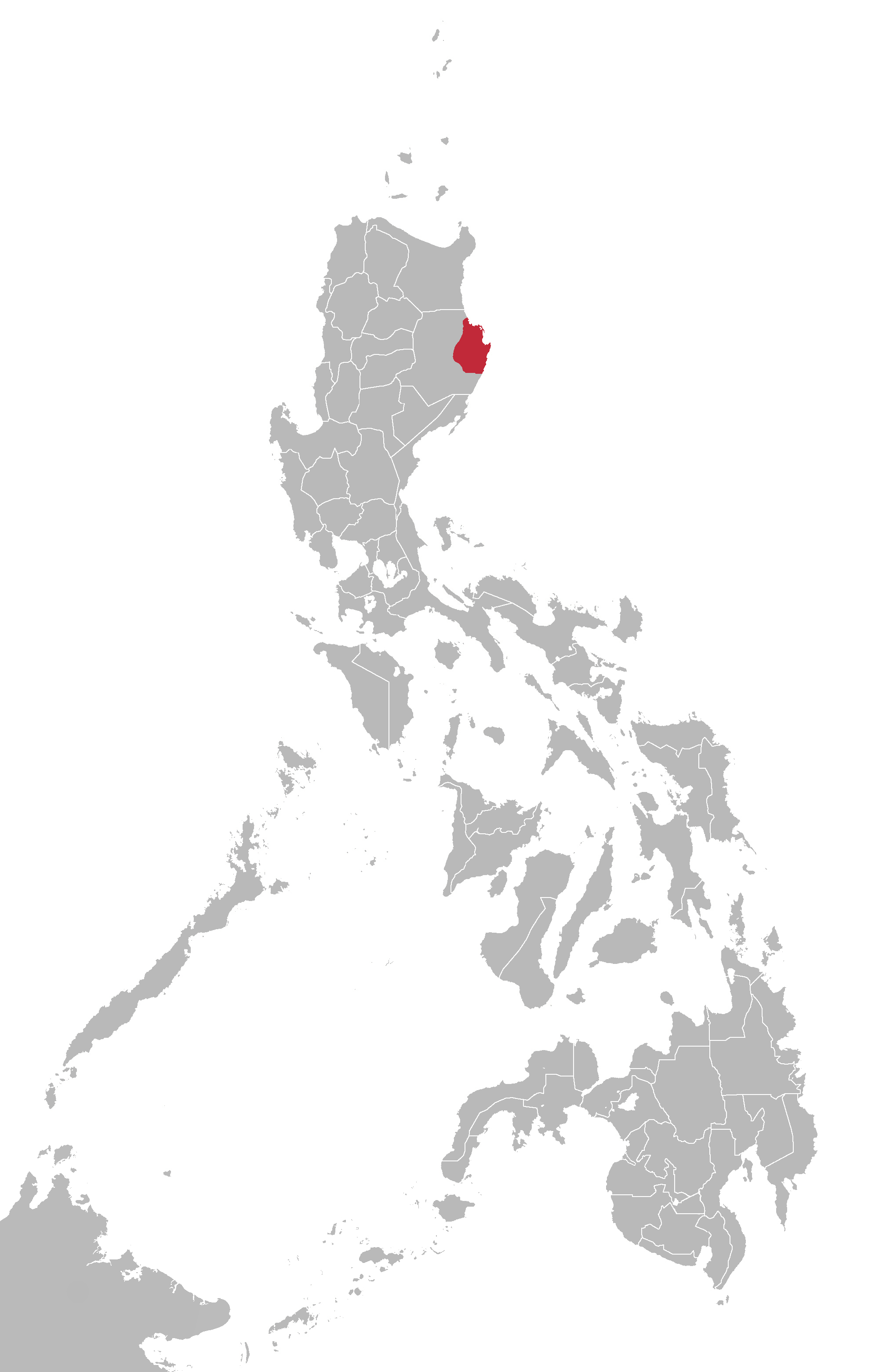 Pahanan Agta language map based on Ethnologue maps